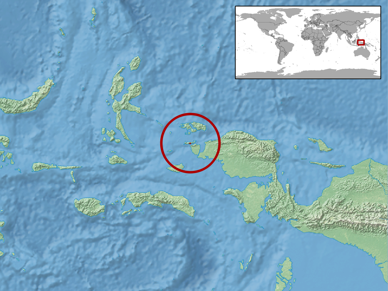 geographic distribution of Cyrtodactylus zugi